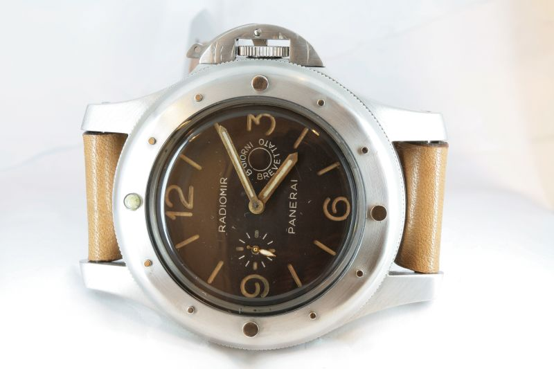 This work is free and may be used by anyone for any purpose. If you wish to use this content, you do not need to request permission as long as you follow any licensing requirements mentioned on this page.